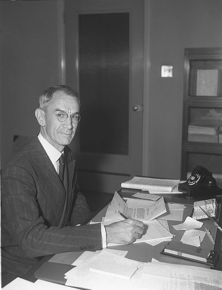 US Library of Congress, Prints and Photographs online catalog